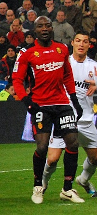 Cameroonian football player Pierre Webó while playing for RCD Mallorca